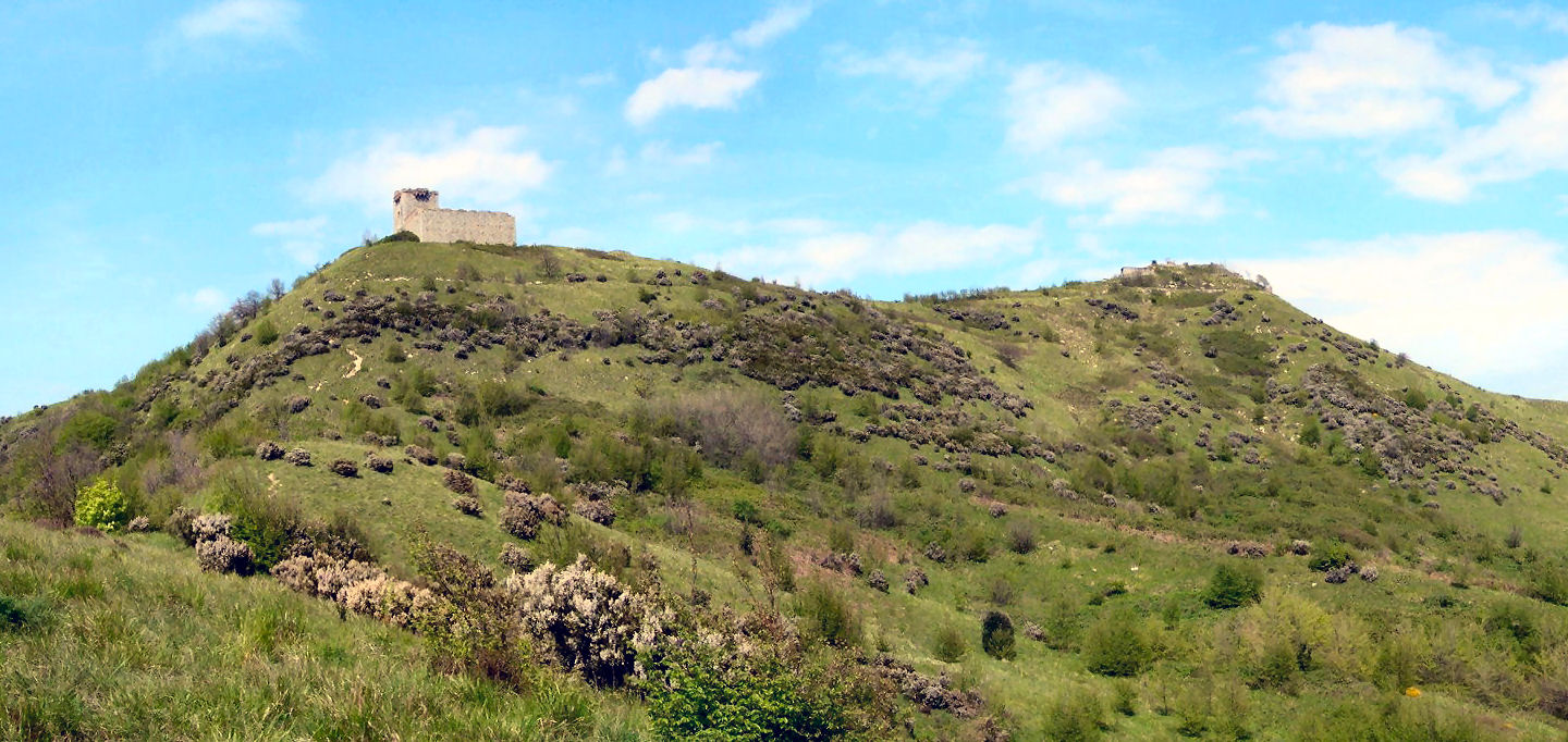 Genoa, the mount and the fortificatione said "Due Fratelli" (The two brothers)